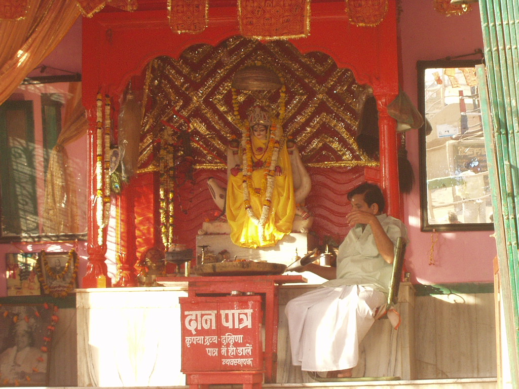 Idol of Ganga (River Ganges in female form) wrapped in a yellow sari. A godman or priest sits next to her. The box in front asks for donations.